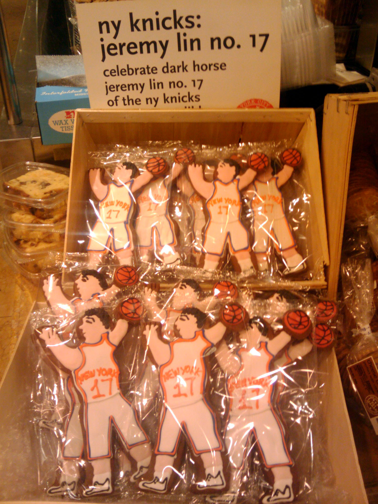 Cookies available in New York inspired by basketball player Jeremy Lin during "Linsanity"